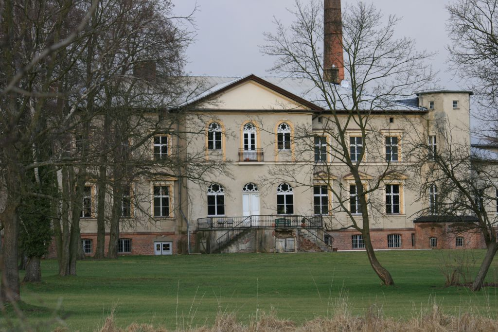 manor-house in Senzke in Brandenburg, Germany